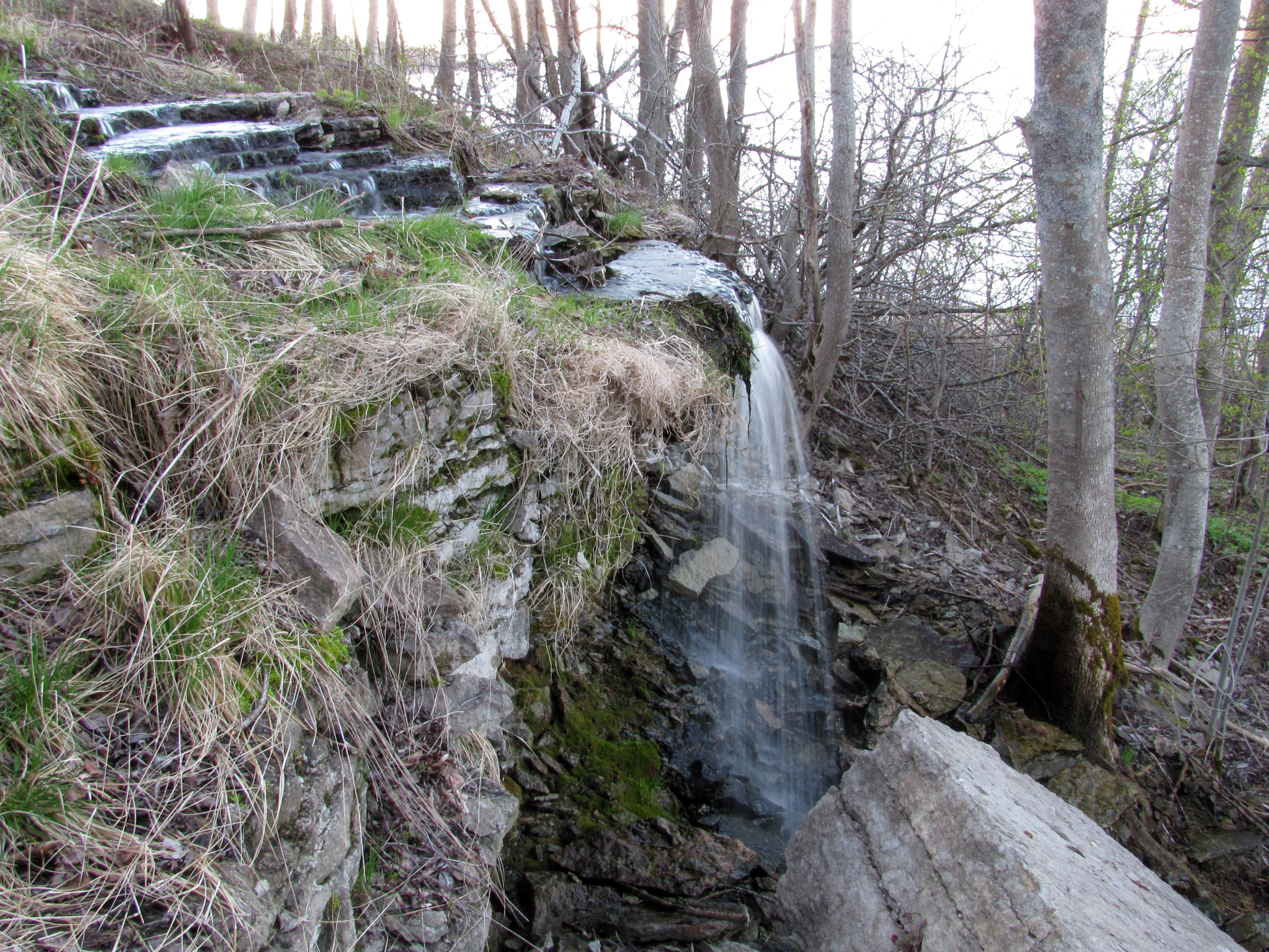 Valli waterfall, Pakri peninsula, Estonia